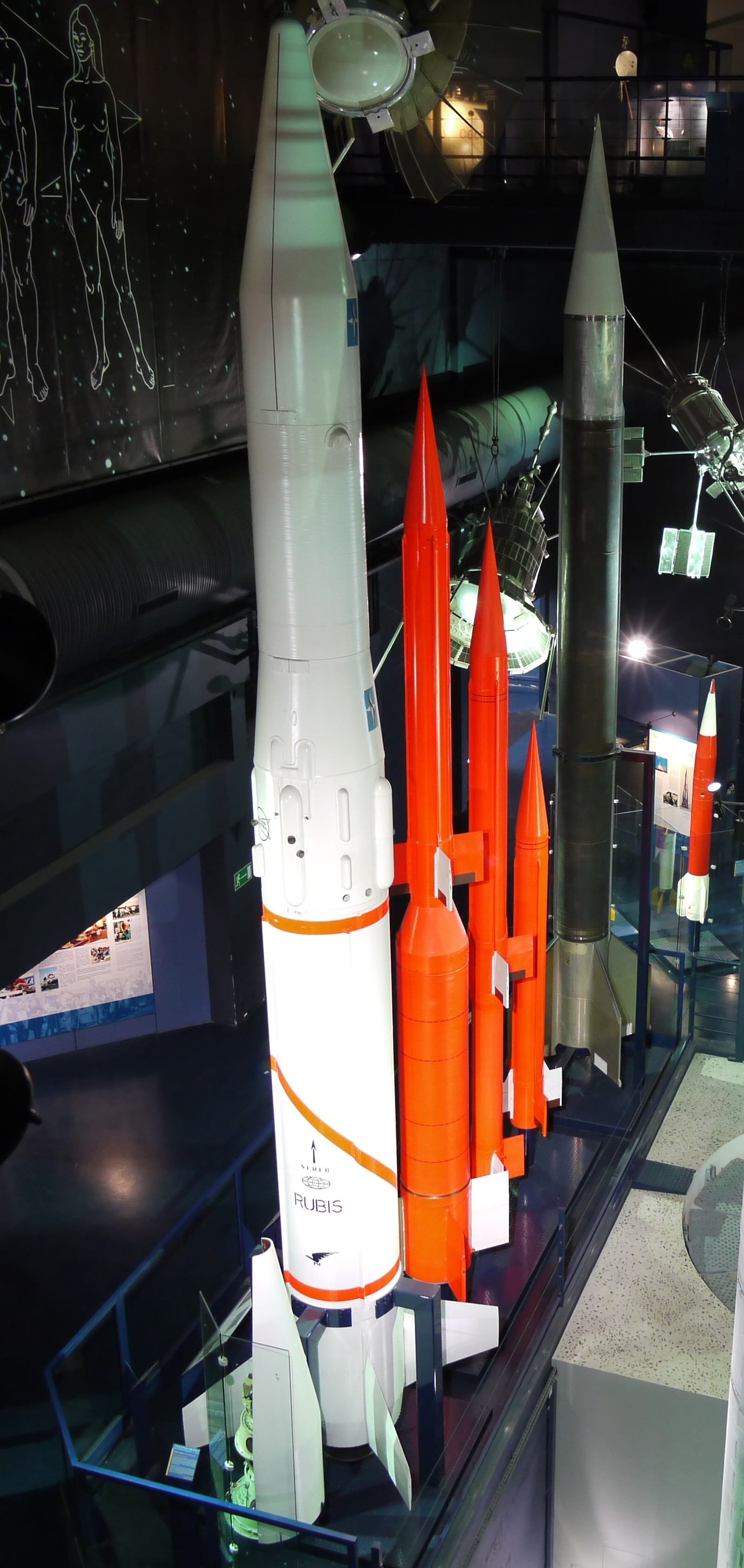 Rubis rocket and Sounding rockets Bélier, Centaure, Dragon et Véronique, Museum of Air and Space Paris, Le Bourget (France)